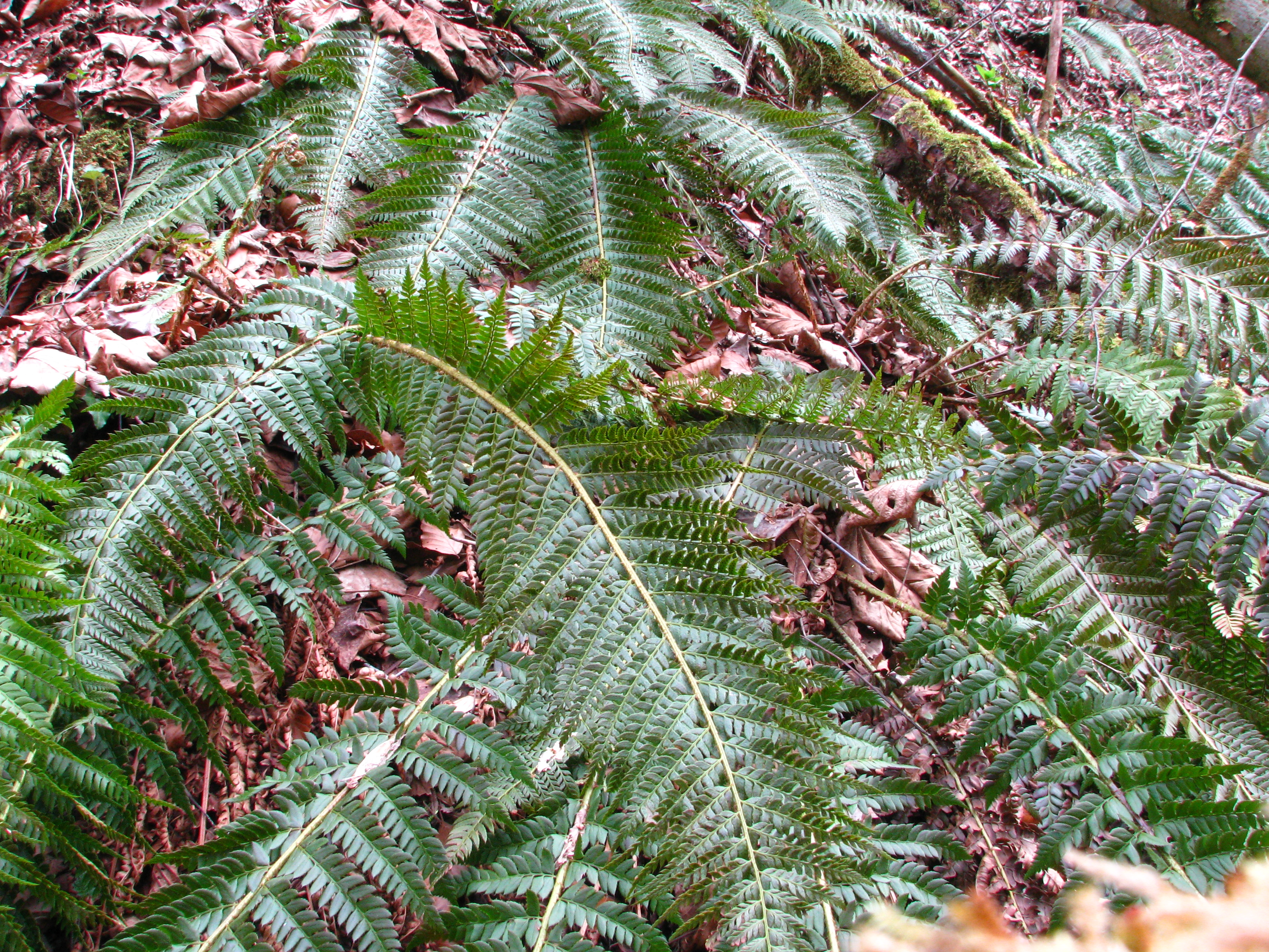 Polystichum aculeatum in Tannertobel in Rüti (ZH) respectively Tann (Switzerland)